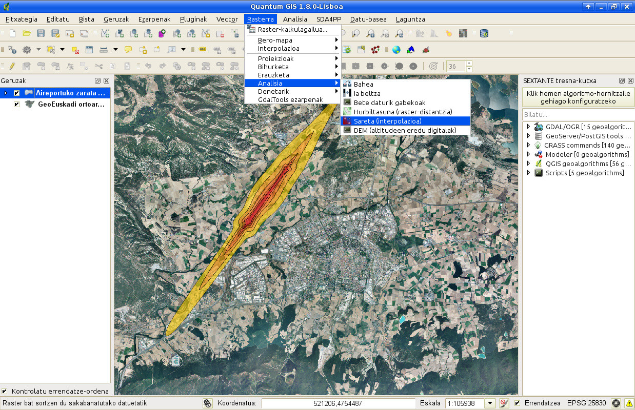 Vitoria-Gasteiz airport noise in QGIS 1.8